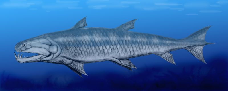 Onychodus sigmoides, a sarcopterygian fish from the Late Devonian of North America, digital